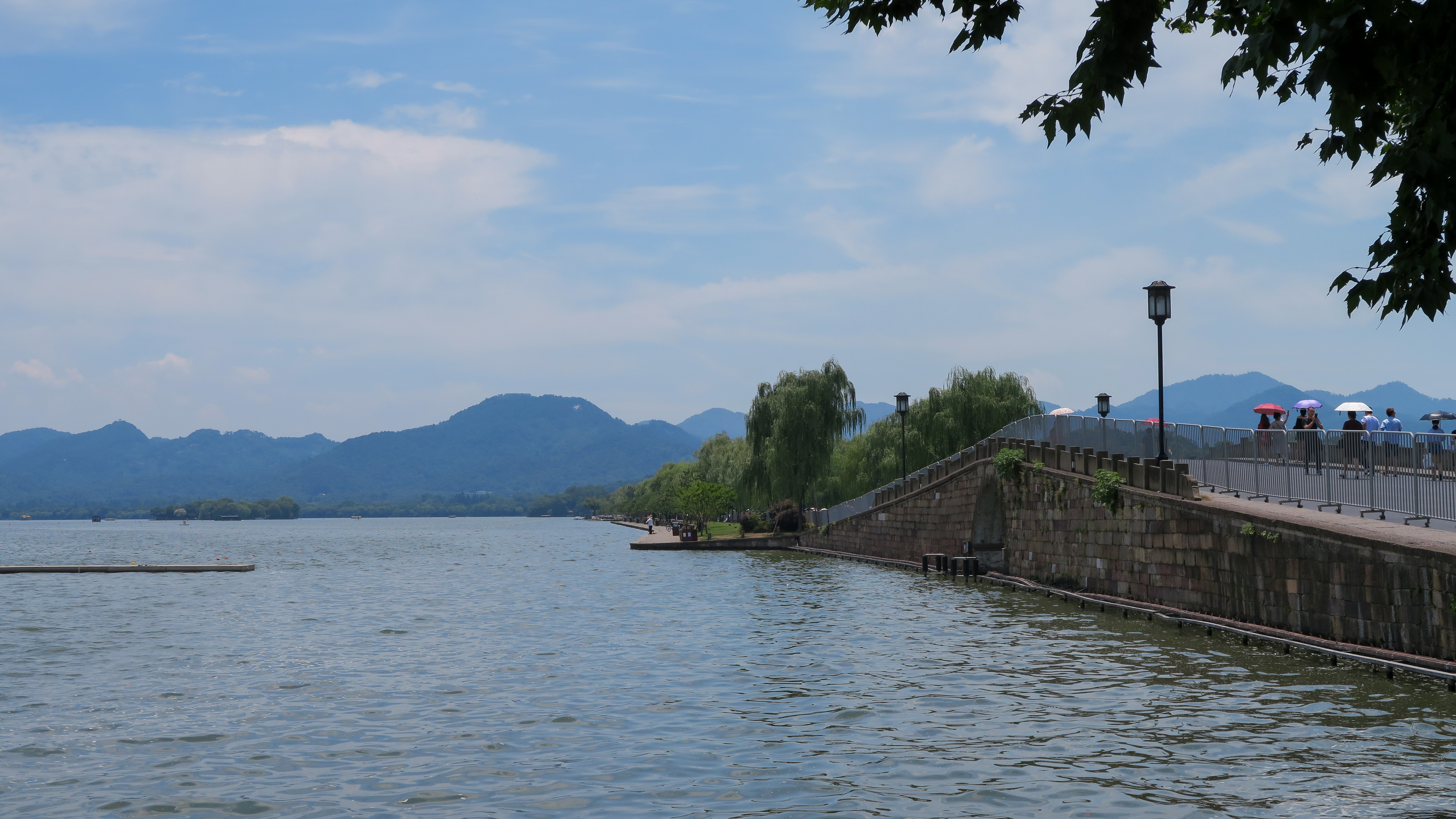 West Lake, Hangzhou: Duanqiao (Broken Bridge), Bai Causeway